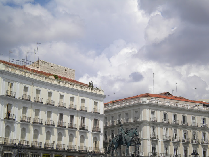 Buildings in Puerta del Sol in Madrid - color photograph